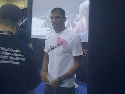 DeMarques Johnson TUF 9 Finalist with fans - UFC 100 Fan Expo - Mandalay Bay Casino, Las Vegas